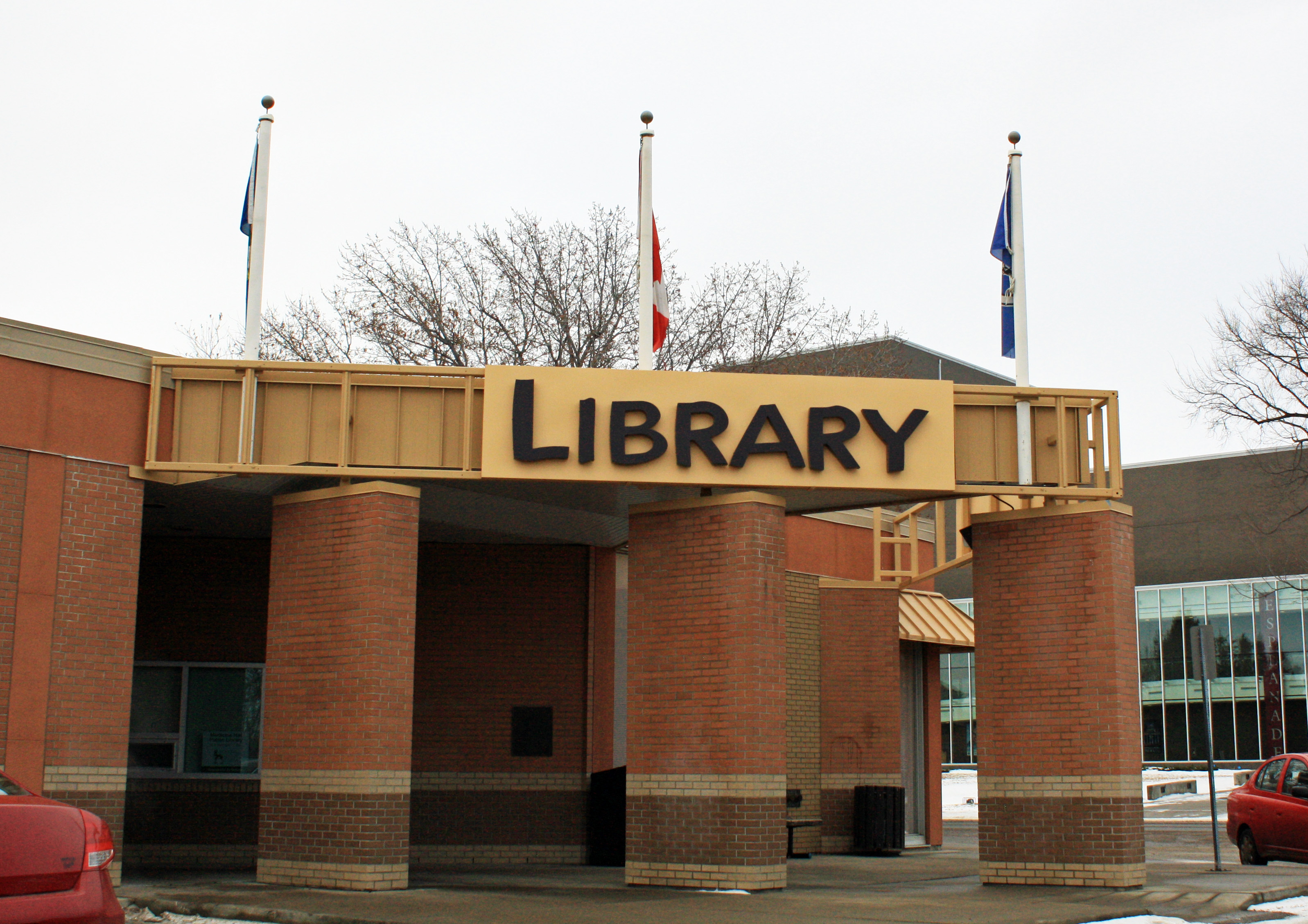 Exterior of the Medicine Hat Public Library